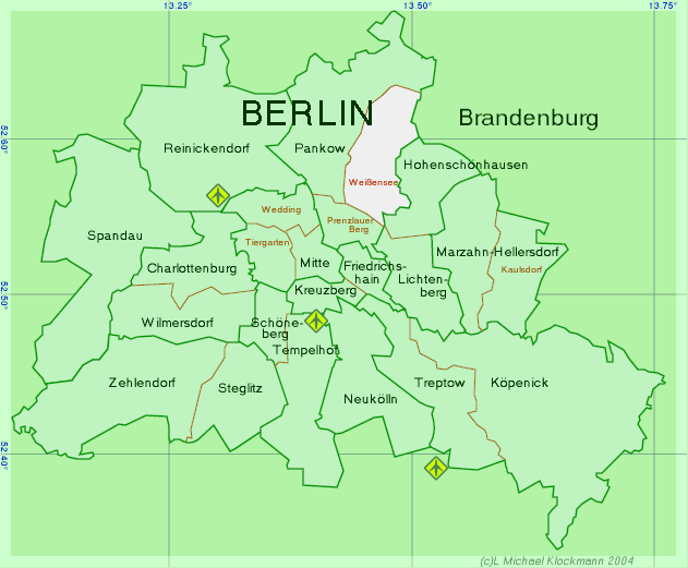 Map of the former Berlin district Weißensee